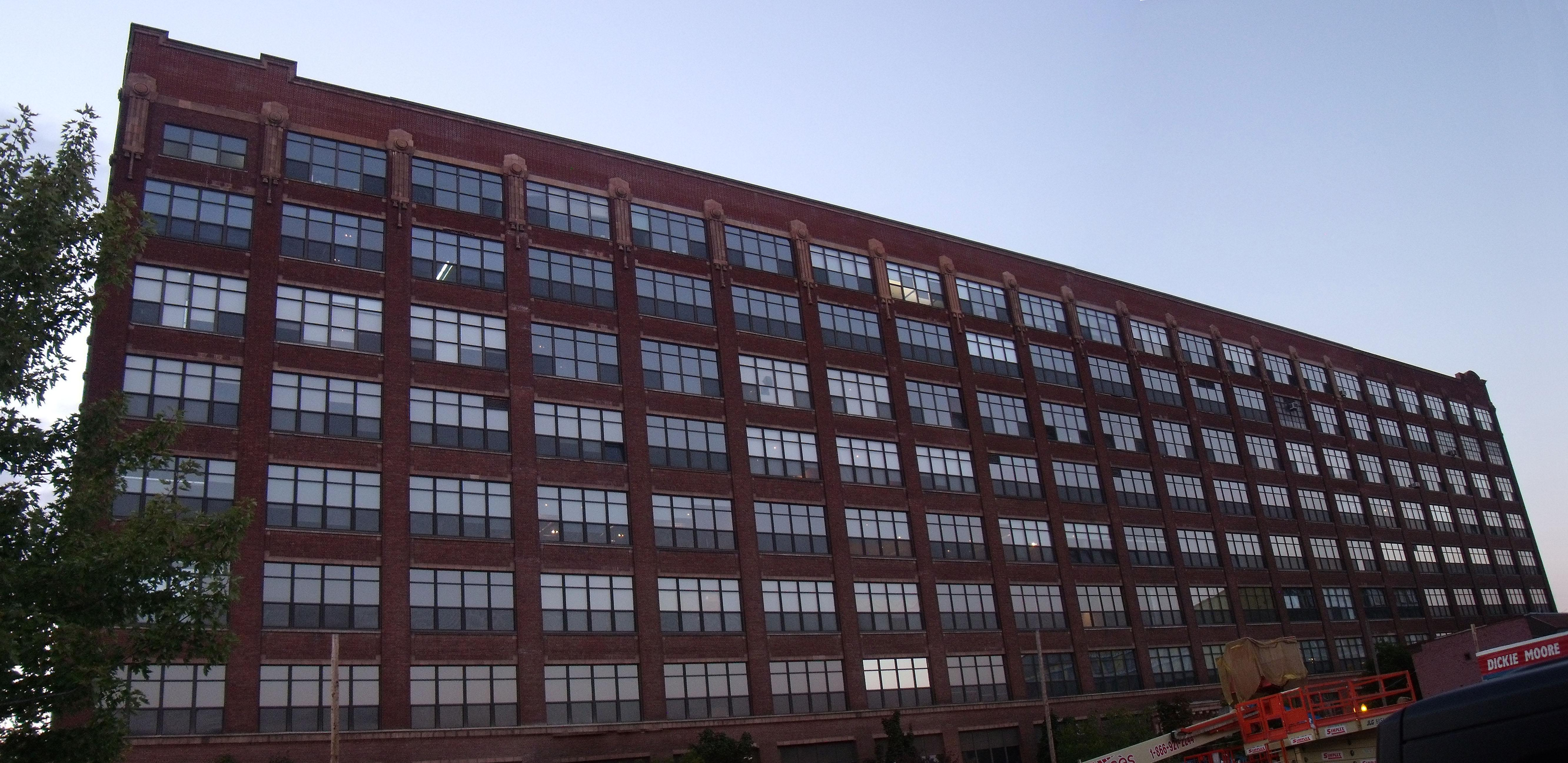 The Northern Electric Company Limited Building (Le Nordelec), 1730-1736 Saint-Patrick Street, Montreal, Quebec, Canada.